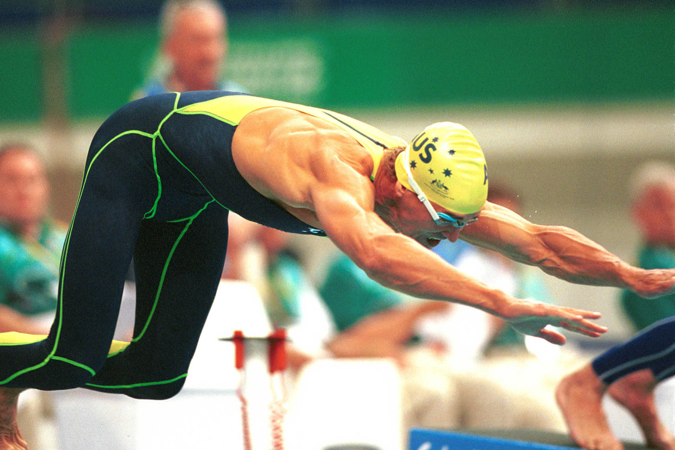 Action shot of Australian swimmer Jeff Hardy diving into the pool at the start of a race, 2000 Sydney Paralympic Games